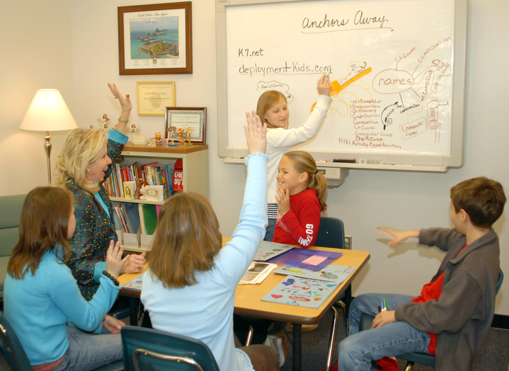 Virginia Beach, Va. (Jan. 17, 2007) - Guidance counselor Elizabeth Prince facilitates an Anchors Away program for children at Christopher Farms Elementary, Virginia Beach, Va. The program was created 10 years ago to help children with deployed parents cope with separation anxiety. U.S. Navy photo by Mass Communication Specialist Seaman Apprentice John K. Hamilton (RELEASED)